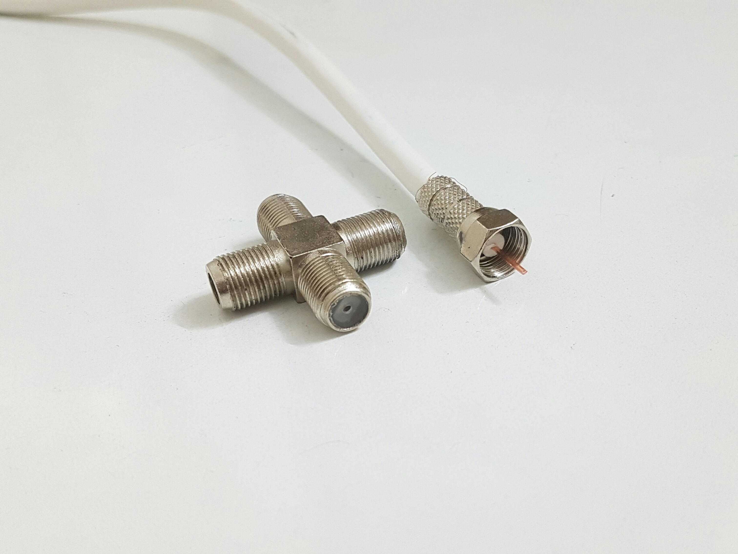 F connector